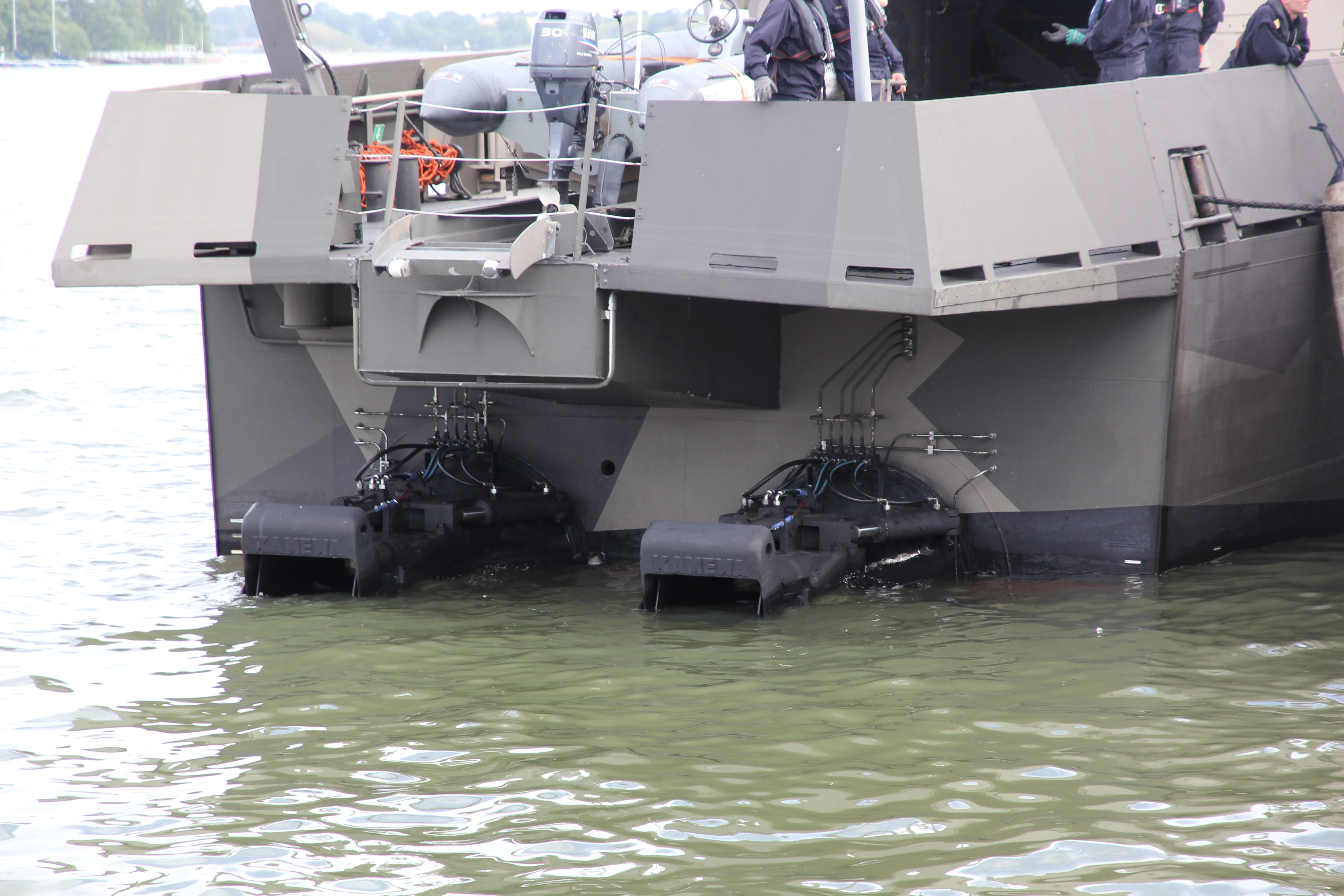 Rolls Royce Kamewa 90SII waterjets of the missile boat Hamina in Helsinki South harbour during Finnish Navy 2015 anniversary.